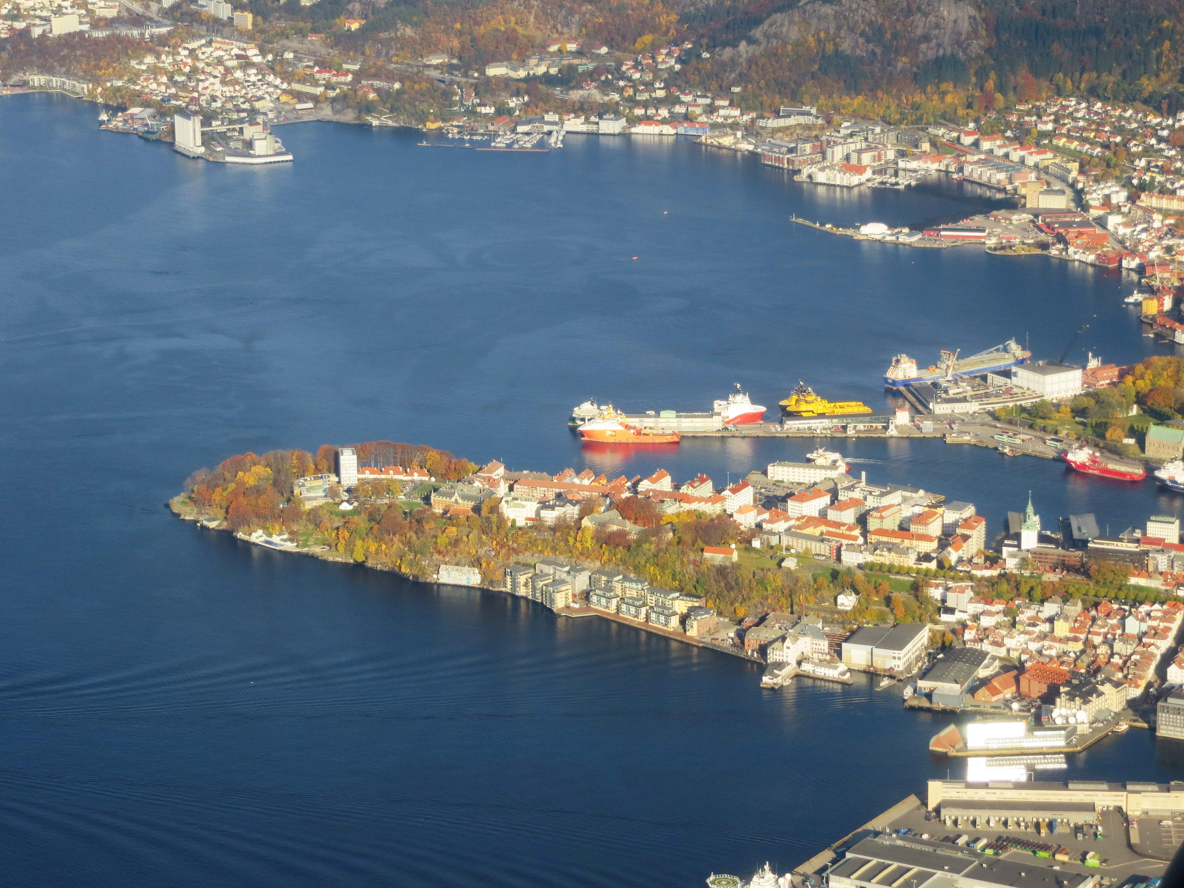 Aerial view of Nordnes peninsula of central Bergen, Norway.